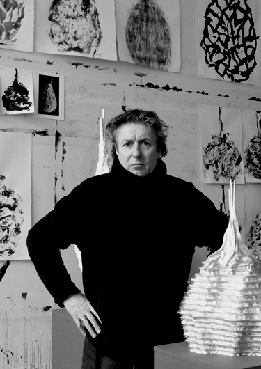 French painter Jacques Martinez.